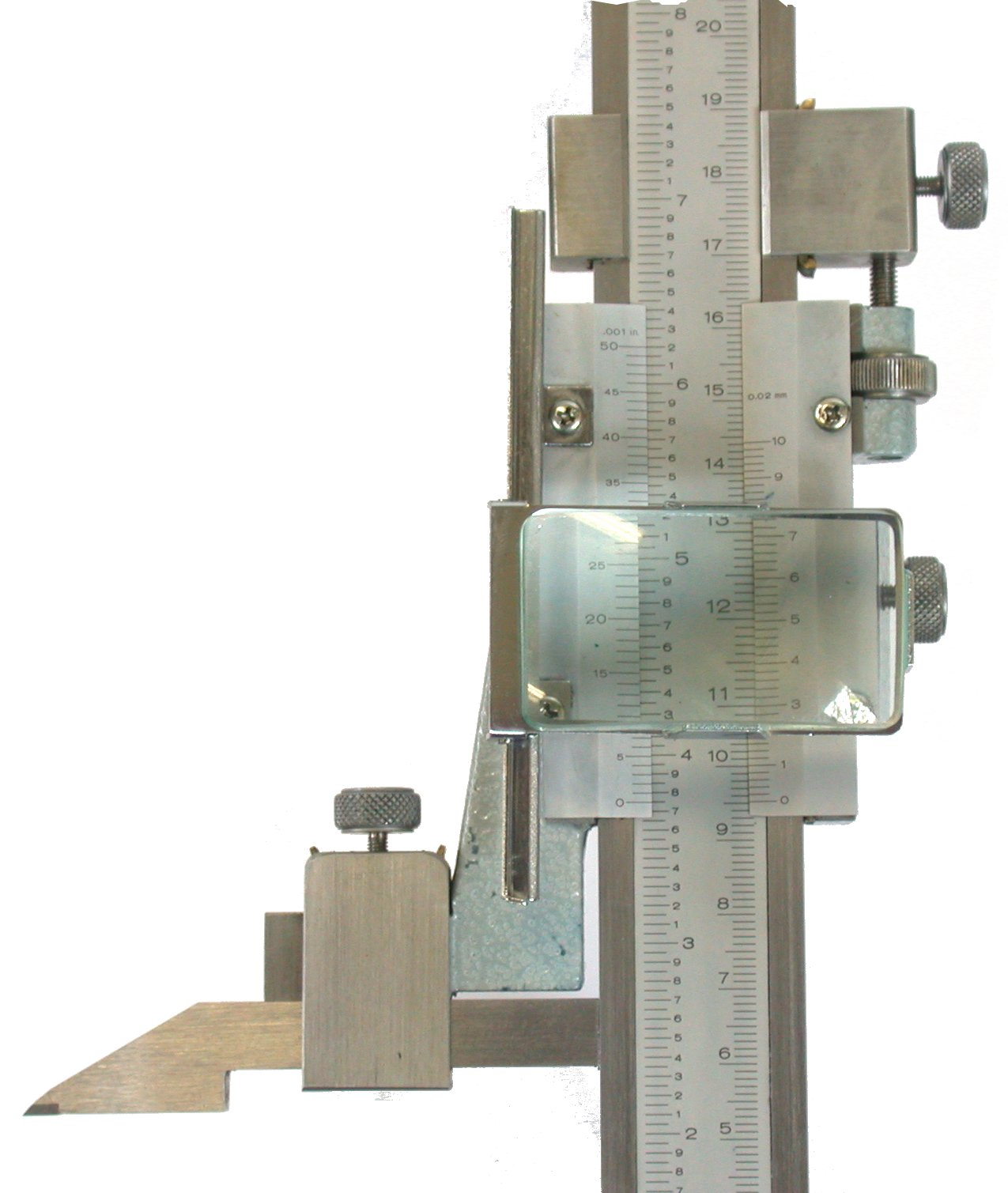 Close up of Vernier scale on a Vernier height gauge